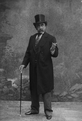 Russian actor Nikolay Musil as Salay in Ostrovsky's Poslednaya zhertva (Maly theater).